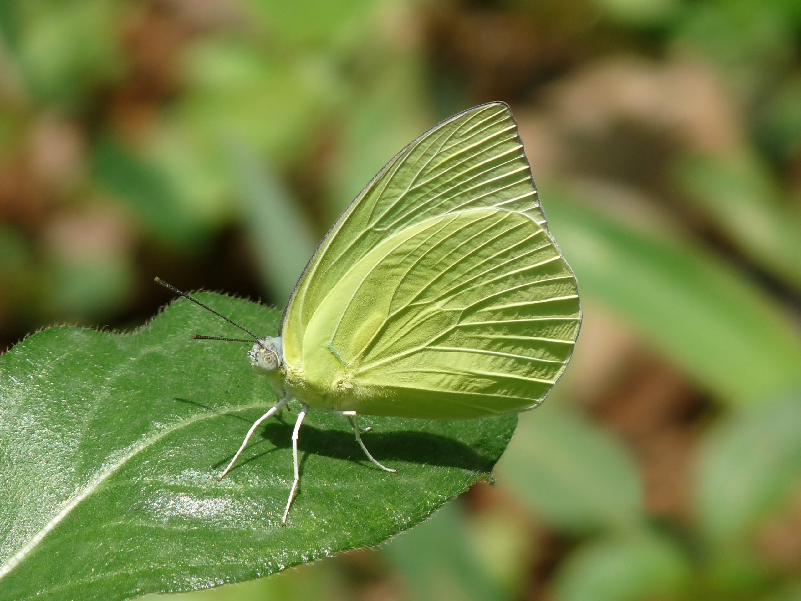 Catopsilia pomona 'crocale' male f. alcmeone The Common Emigrant or Lemon Emigrant (Catopsilia pomona) is a medium sized pierid butterfly found in Asia and parts of Australia. The species gets its name from its habit of migration. This is a very variable species with many named forms. There are two male forms, f. alcmeone and f. hilaria, and five female forms, f. pomona, f. crocale, f, jugurtha, f. catilla and f. nivescens. Of theses, f. alcmeone is the commonest male form, and f. crocale is the commonest female form for most of the year. However, during the months of May- July, f. jugurtha appears to be more common. The remaining forms are present for most of the year, but in lesser quantities. The 'crocale' forms - antennae black above and underside of wings without silvery spots at the cell-ends. Upperside creamy white wings with base of wings lemon-yellow. Forewing apex margined thinly with black - male, form alcmeone (Cramer 1777). Upperside creamy white wings with costal margin of forewing and both termens bordered with black. There is also black submarginal markings, a black cell end spot on the forewing and wing bases are tinged with yellow - female, form jugurtha (Cramer 1777). Both wings have broad black distal borders bearing a series of large, diffuse, interneural whitish spots - female, form crocale (Cramer 1775). The 'pomona' forms - antennae red above and underside of wings with silvery spots outlined in red at cell-ends. Resembles male form alcmeone. However, the lemon-yellow base is more restricted especially absent in the hindwing tornal area - male, form hilaria (Stoll 1781). Pale yellow wings with black bordering and reduced markings - female, form pomona (Fabricius 1775). Similar to form pomona but with white wings - female, form nivescens (Fruhstorfer 1910). Red blotches on the underside - female, form catilla (Cramer 1779). Taken at Kadavoor, Kerala, India.